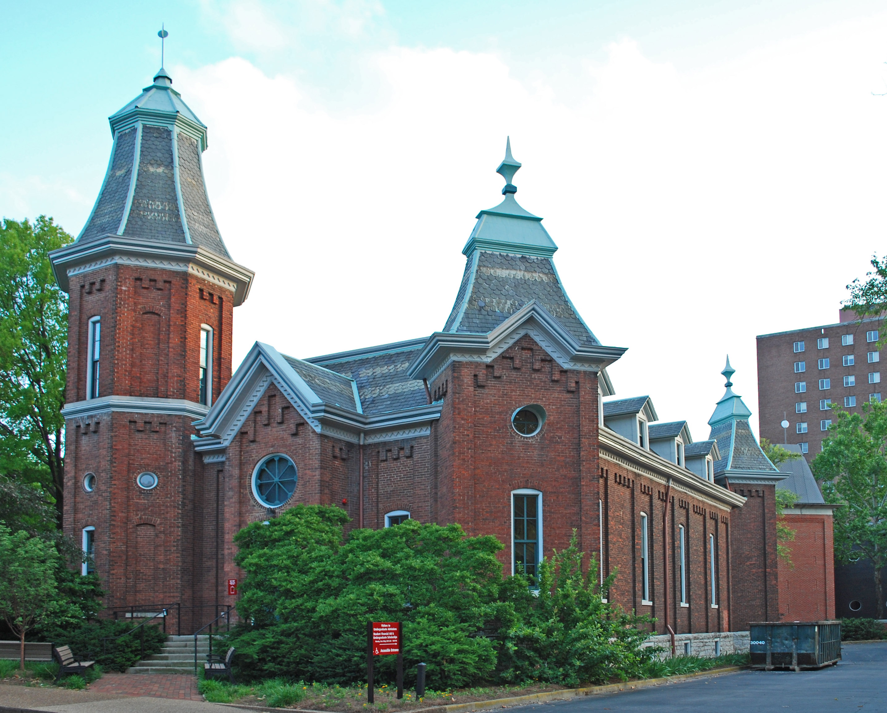 Old Gymnasium, Vanderbilt U, Nashville TN